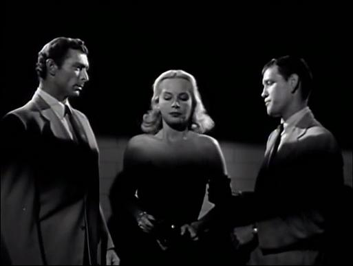 Fante (Lee Van Cleef) and Mingo (Earl Holliman) with Susan (Jean Wallace) in The Big Combo